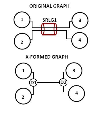 where the x-formation method fails